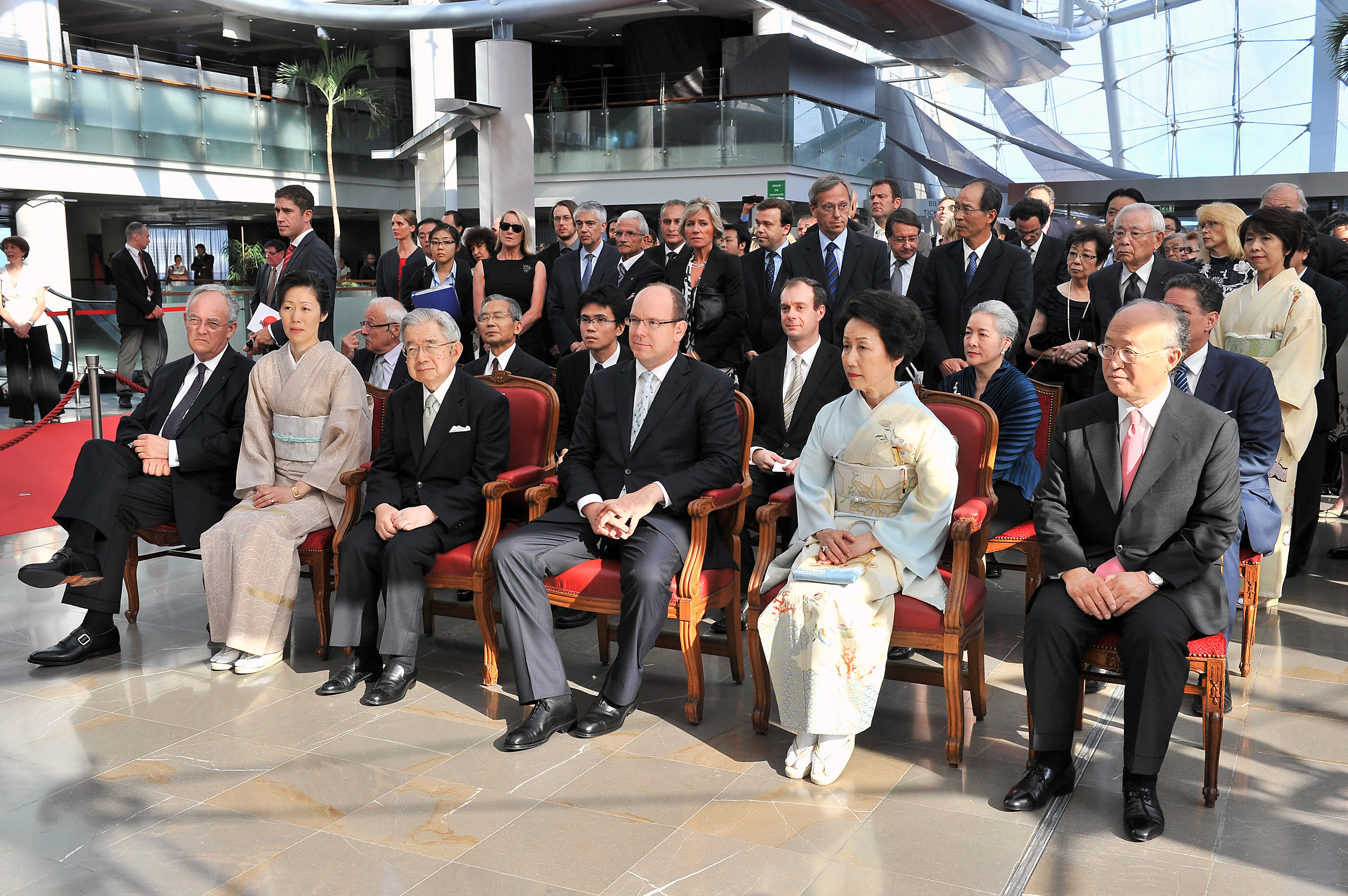 Prince Albert II, Prince Masahito, Princess Hanako and Yukiya Amano, Director General of the International Atomic Energy Agency, attended the opening ceremony of the art exhibition "Kyoto-Tokio" at the Grimaldi Forum in Larvotto Ward, Monaco City on July 13, 2010.